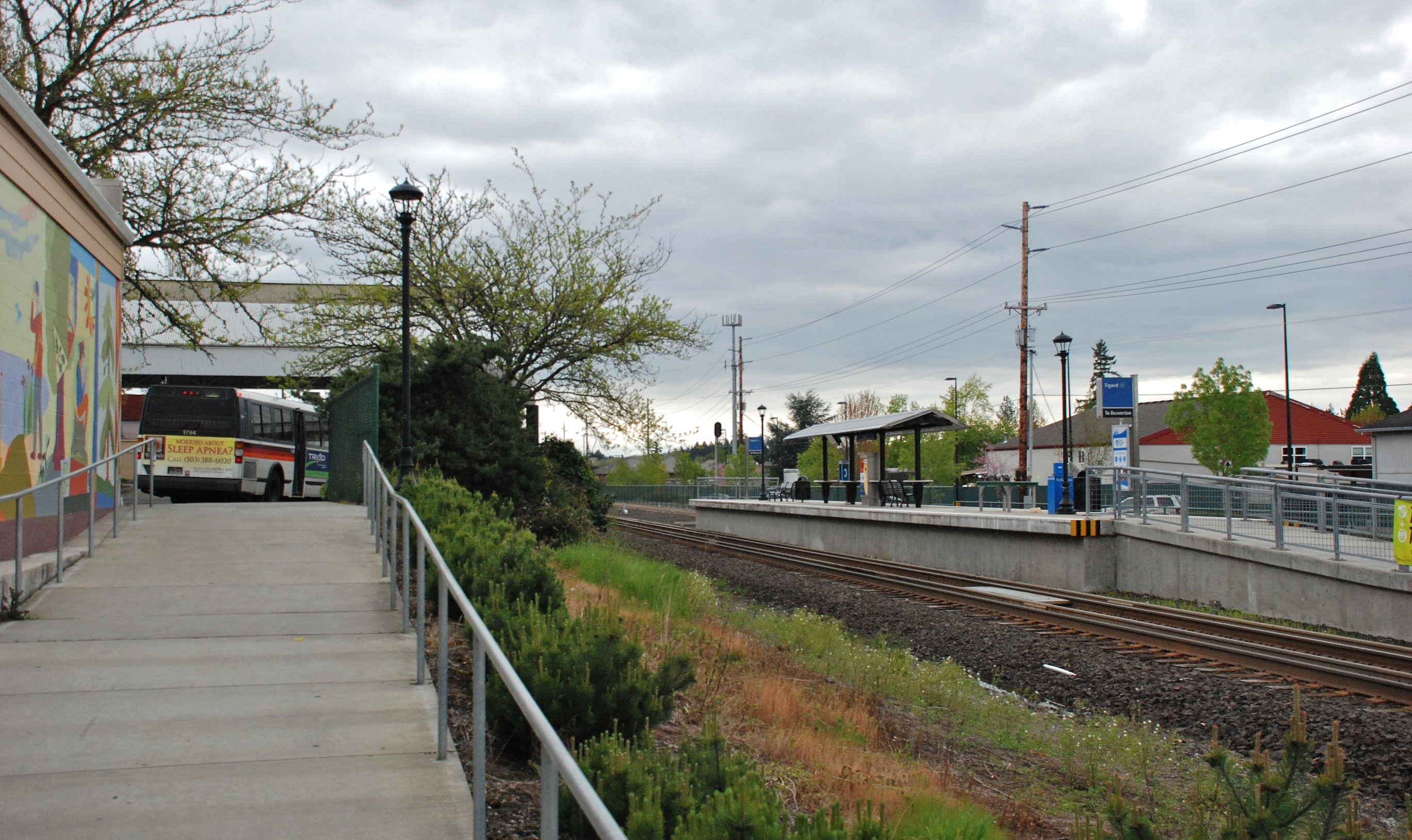 The WES commuter-rail station at Tigard Transit Center, viewed from the walkway connecting it to the transit center's bus area.